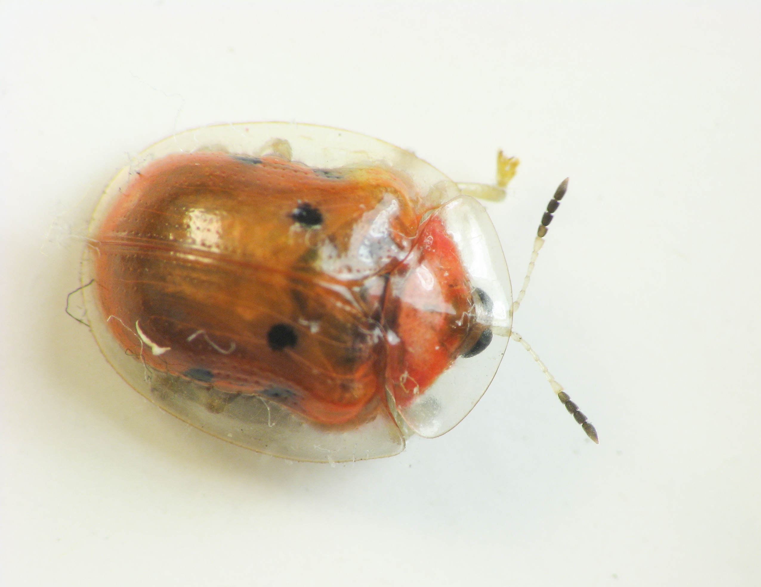 Golden tortoise beetle, Charidotella sexpunctata, adult, emerged from pupa on bindweed. Pennypack Restoration Trust, Montgomery County, Pennsylvania, USA.